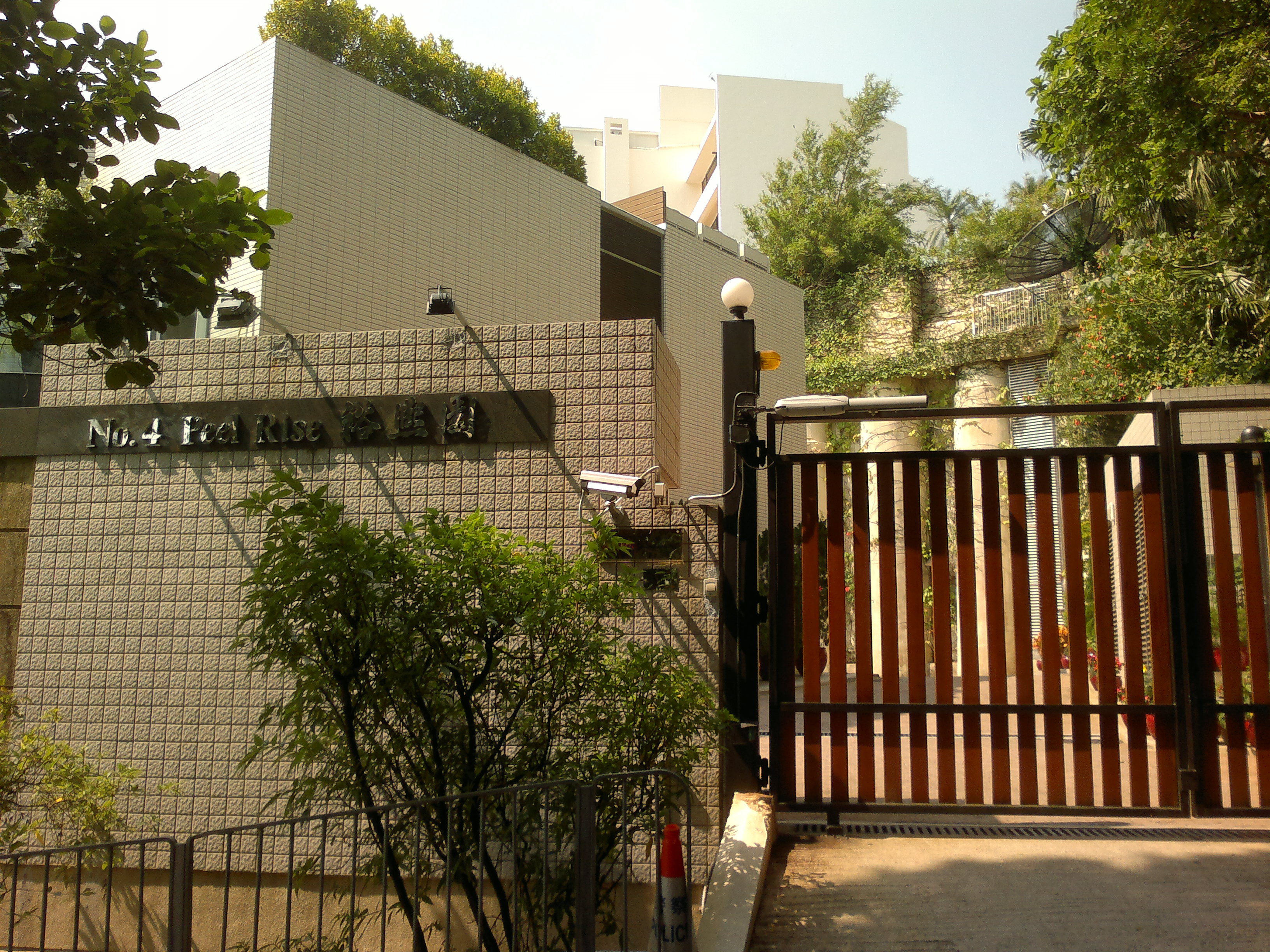 Yue Hei Yuen